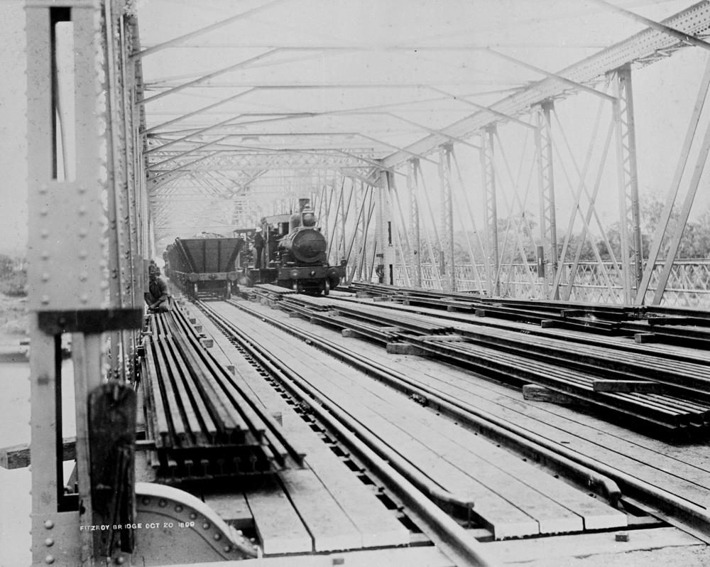 Steam engine crossing the Alexandra Railway Bridge at Rockhampton, 1899 The steel bridge has a steam engine on one set of tracks and some coal trucks sitting on another set of tracks. There are piles of steel tracks sitting on the bridge between the laid tracks.